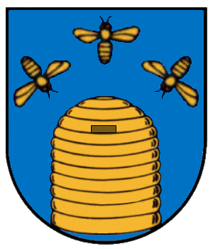 Coat of arms of :de:Lengenbostel.